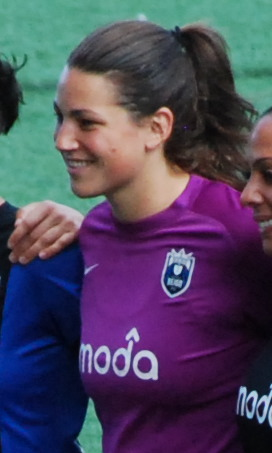 Seattle Reign FC vs Sky Blue FC Memorial Stadium, Seattle Center Seattle, WA June 28, 2014